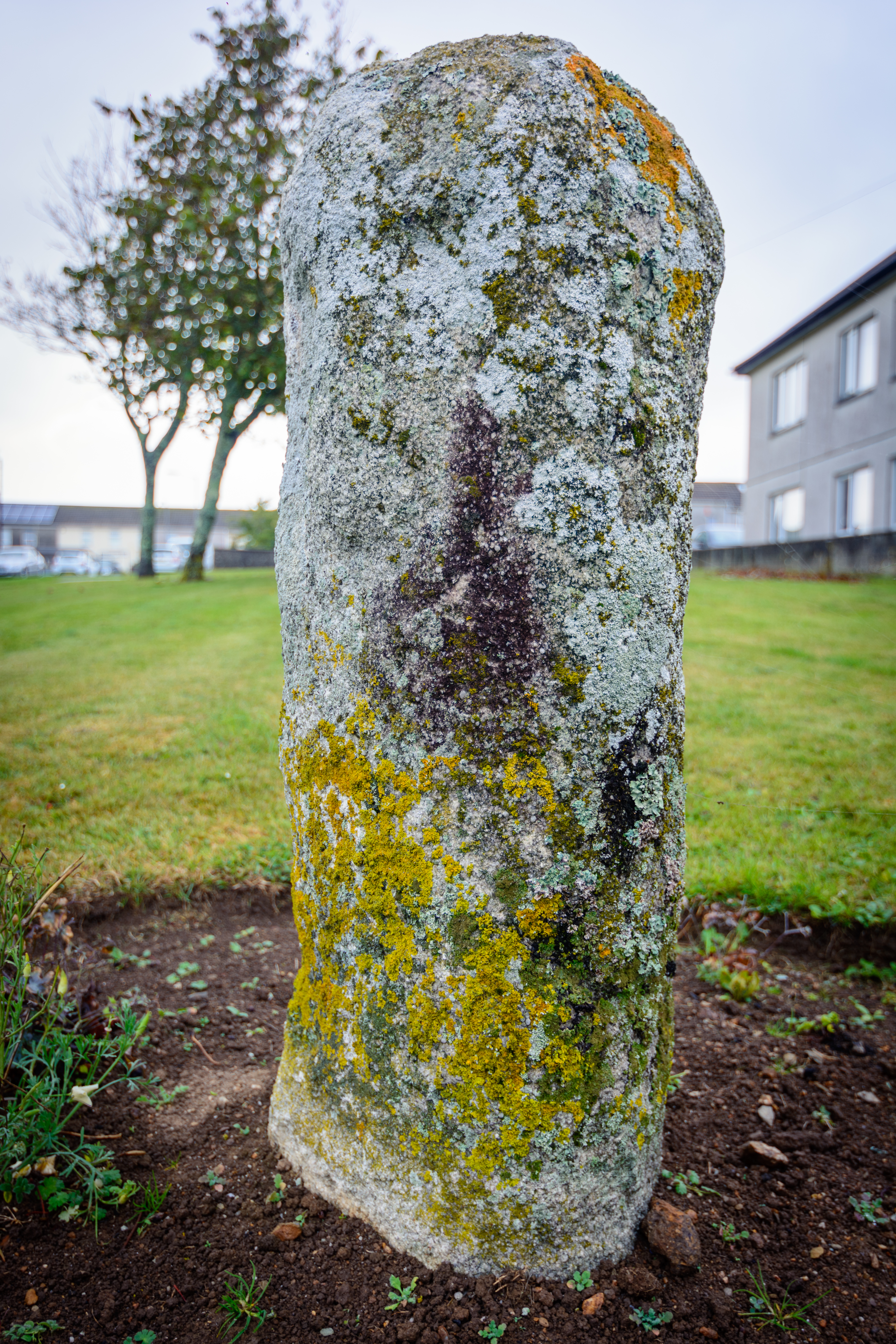 Doublestiles Cross, at the junction of Duchy Avenue and Henver Road Wikidata has entry Q17649768 with data related to this item. This Cornish Cross of a series which, from the time before Enclosures, marked the ancient Church path between St Crantock and St Columb Minor. The shaft being oval makes it unique.